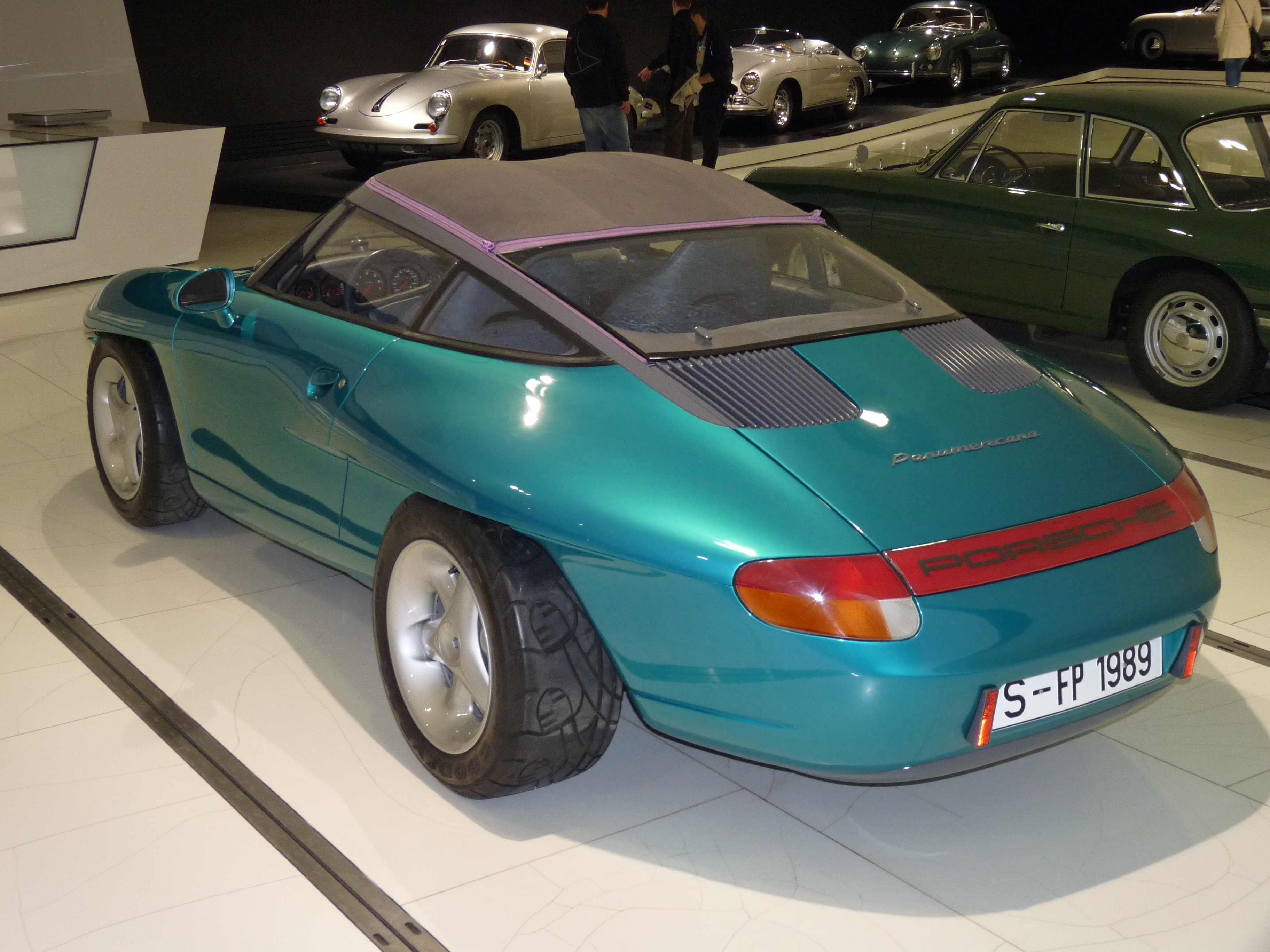 Porsche Panamericana seen at Porsche Museum, Stuttgart.